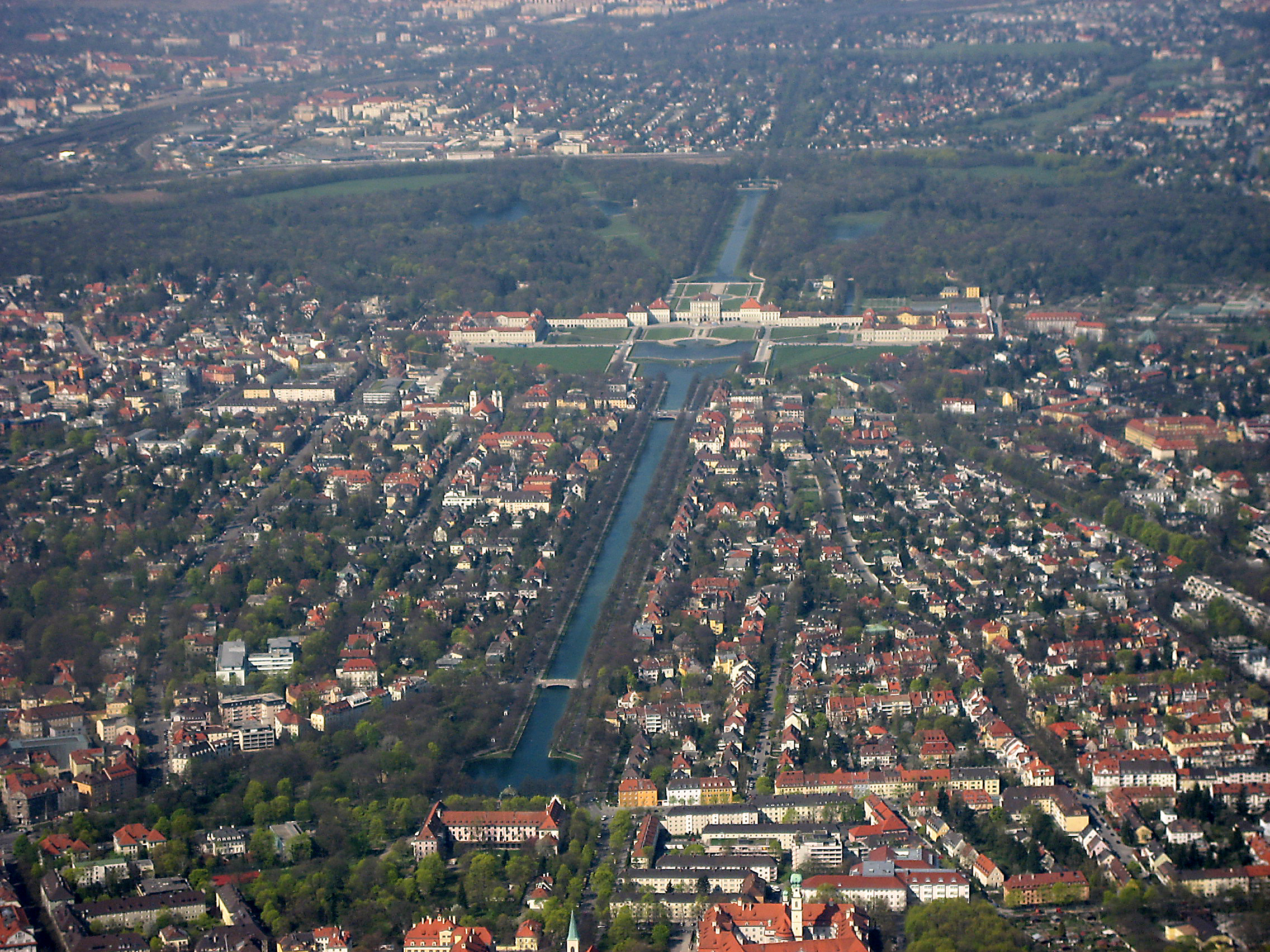 Nymphenburg Palace with Nymphenburg Canal